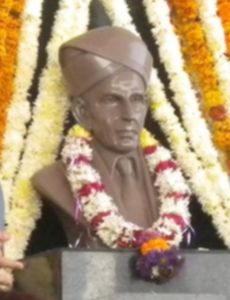 Visvesvaraya Statue at JIT